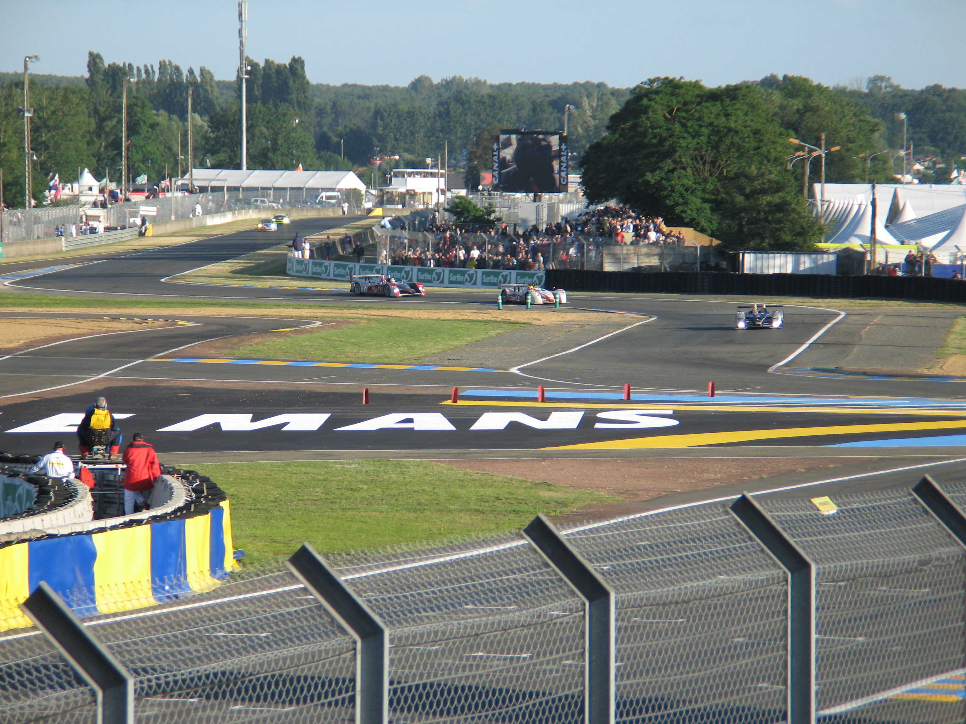 Ford Chicanes during the 2007 24 Hours of Le Mans